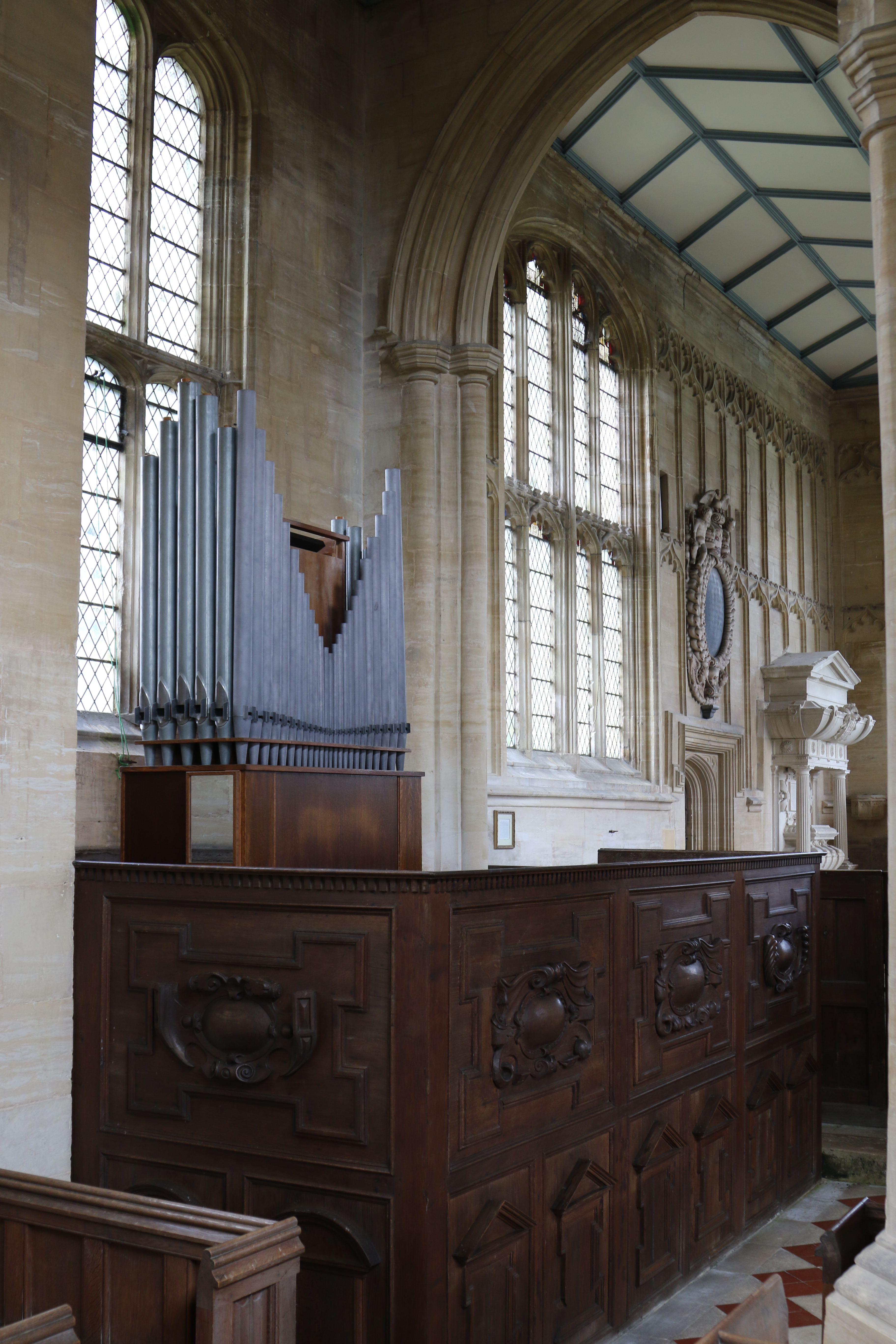 North aisle and organ of Hillesden church